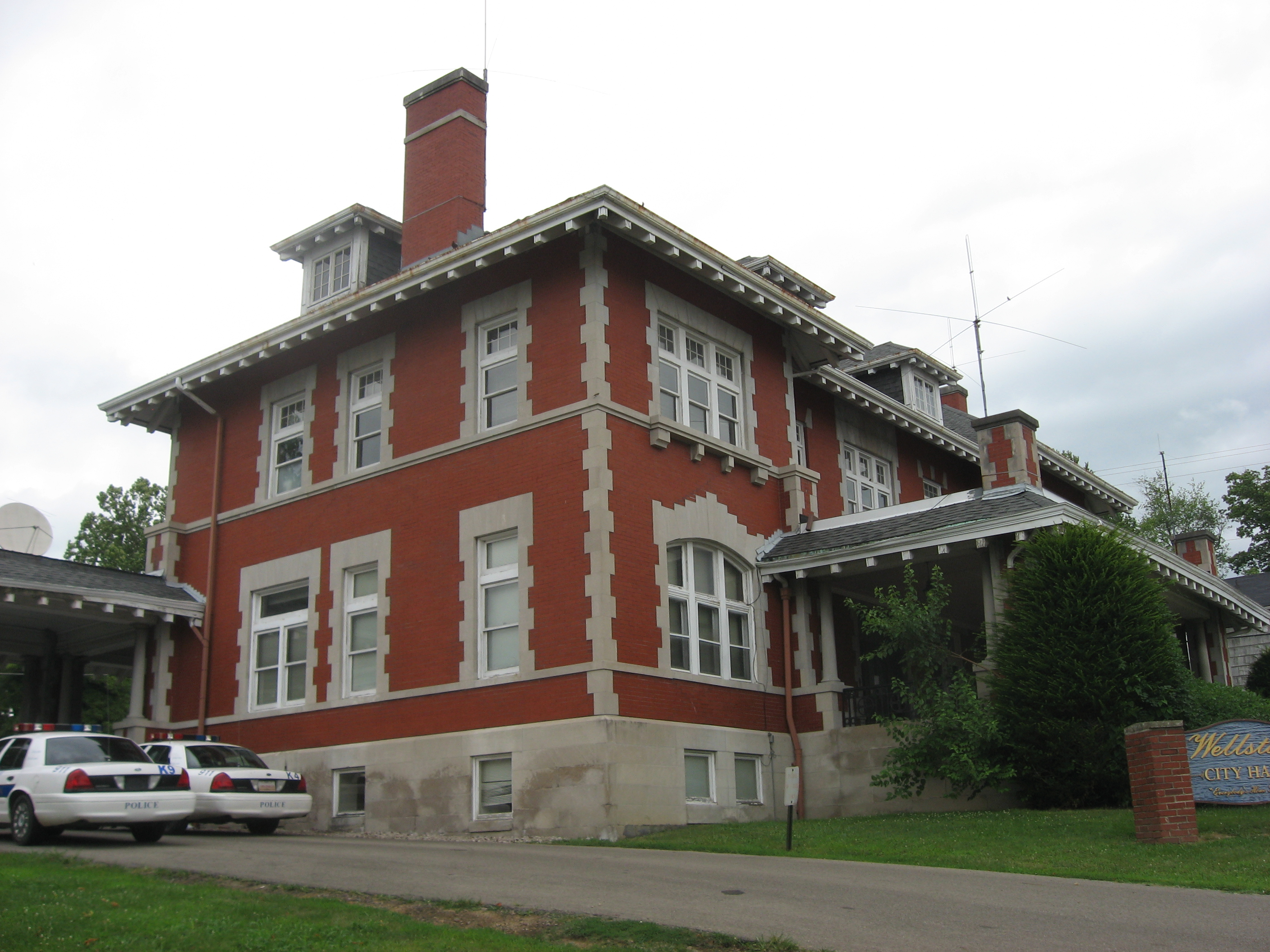 Front of the Morgan Mansion, located on the northeastern corner of the junction of Broadway (State Routes 327/Ohio State Route 788/788) and Pennsylvania Avenue (State Route 63) in downtown Wellston, Ohio, United States. Built in 1905 and since converted into Wellston's city hall, it is listed on the National Register of Historic Places.